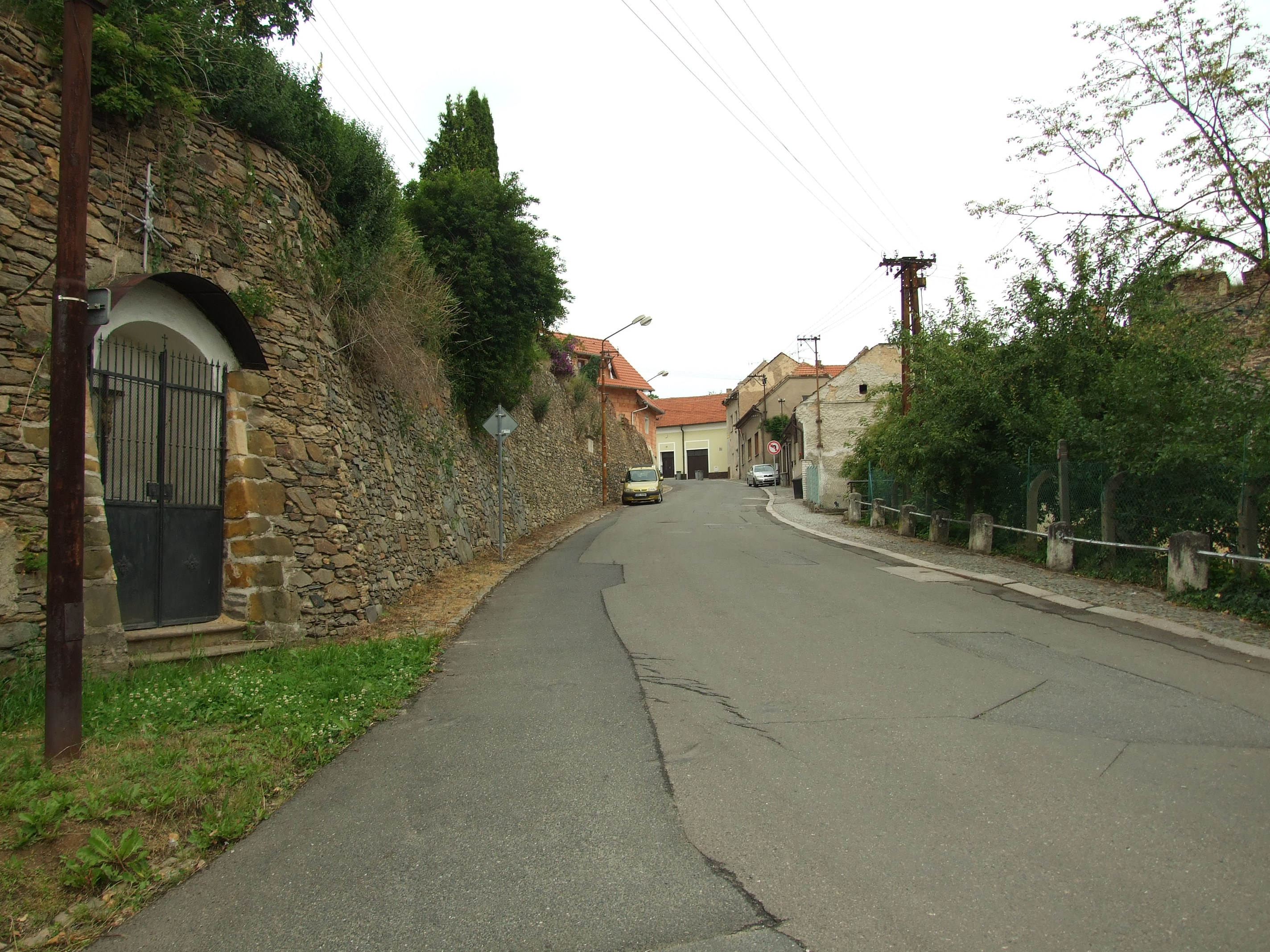 Kouřim, Kolín District, Central Bohemian Region, the Czech Republic.